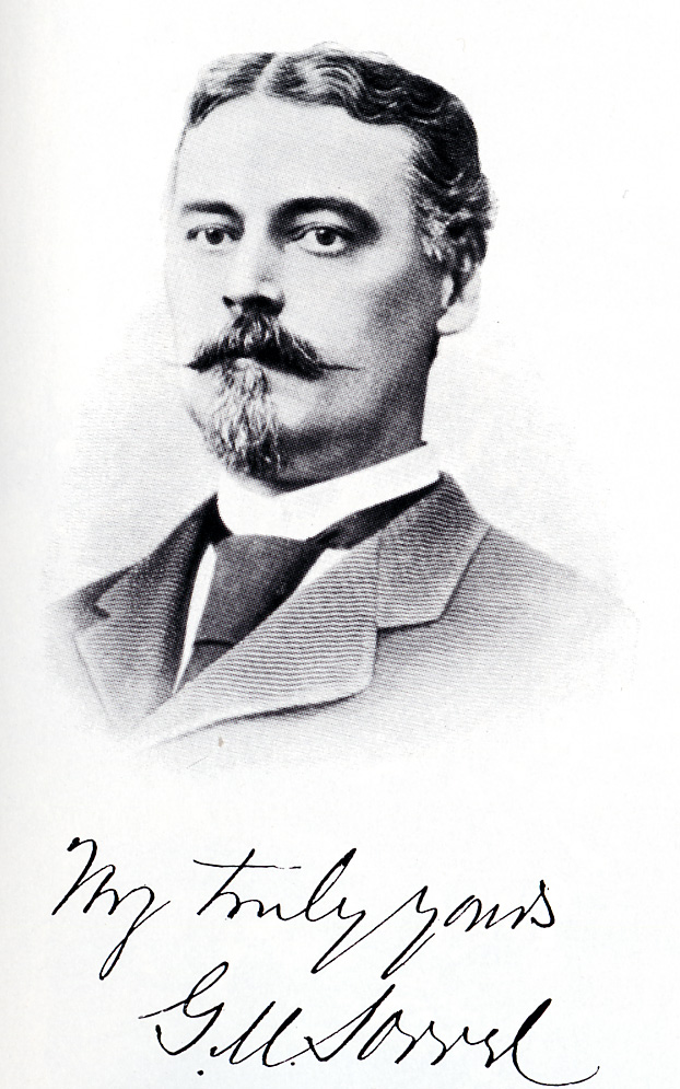 Moxley Sorrel. Photo scanned from Longstreet, James, From Manassas to Appomattox: Memoirs of the Civil War in America, J. B. Lippincott and Co., 1896, p. 519.